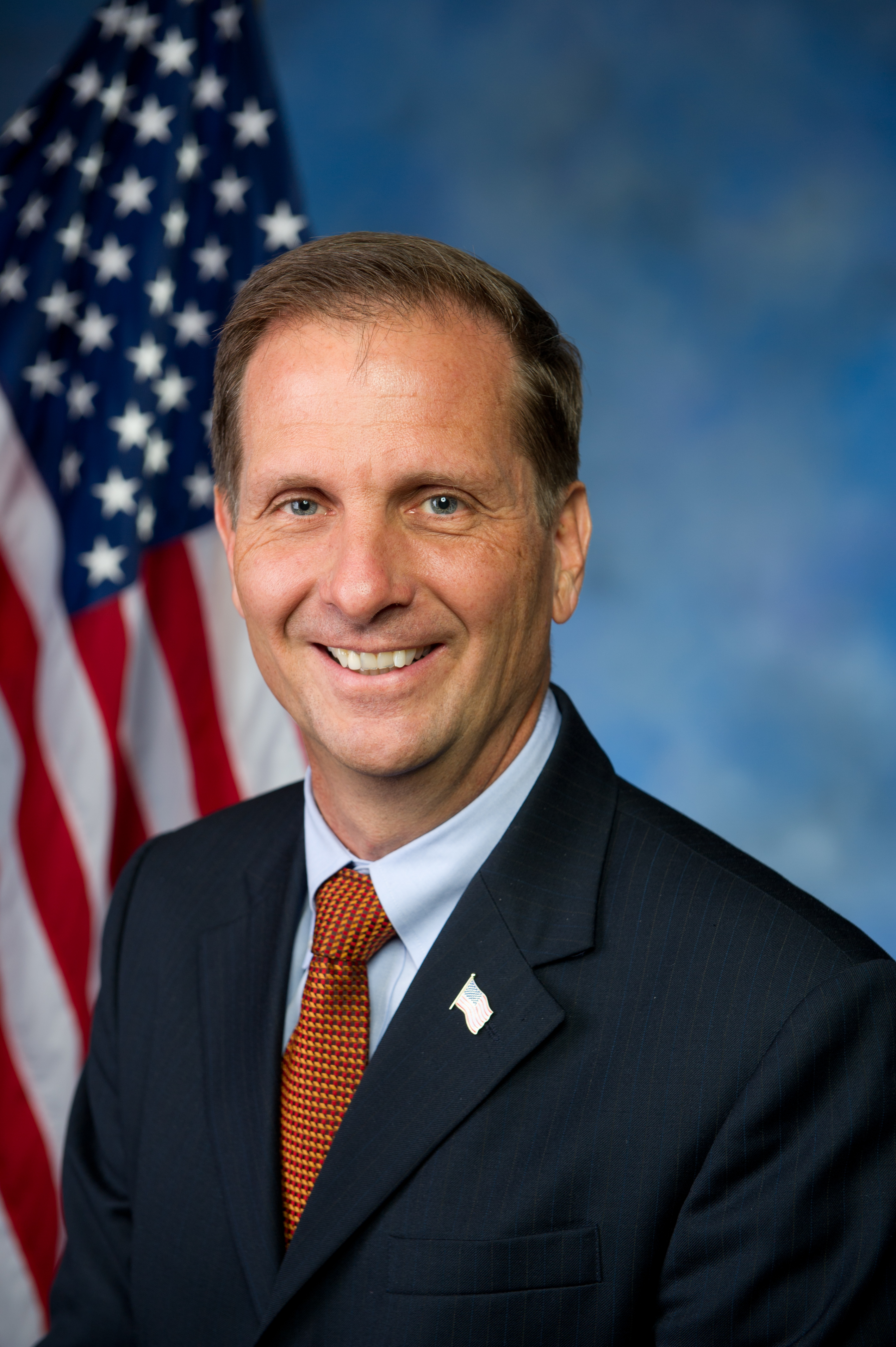 Official portrait of Congressman Chris Stewart (R-UT).